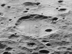 Oblique view of Buffon, on the far side of the moon, facing west.